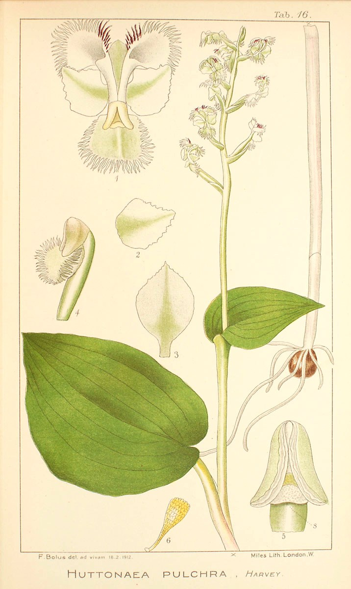 Illustration of Huttonaea pulchra from Harry Bolus Icones Orchidearum Austro-Africanarum